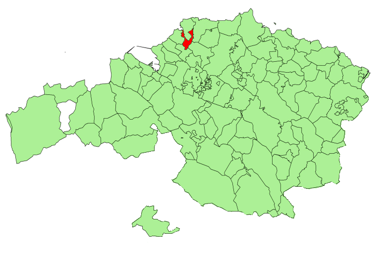 Plentzia municipality in the province of Biscay